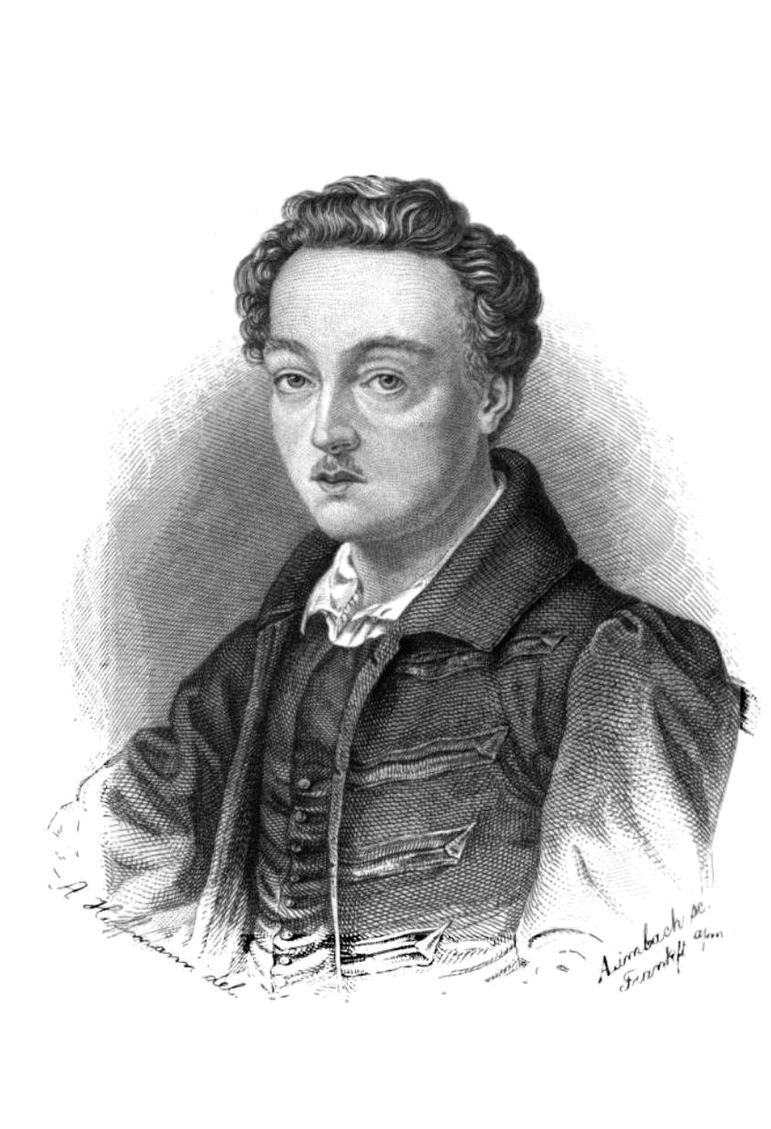 Georg Büchner, illustration in a French edition of his complete works (1879).